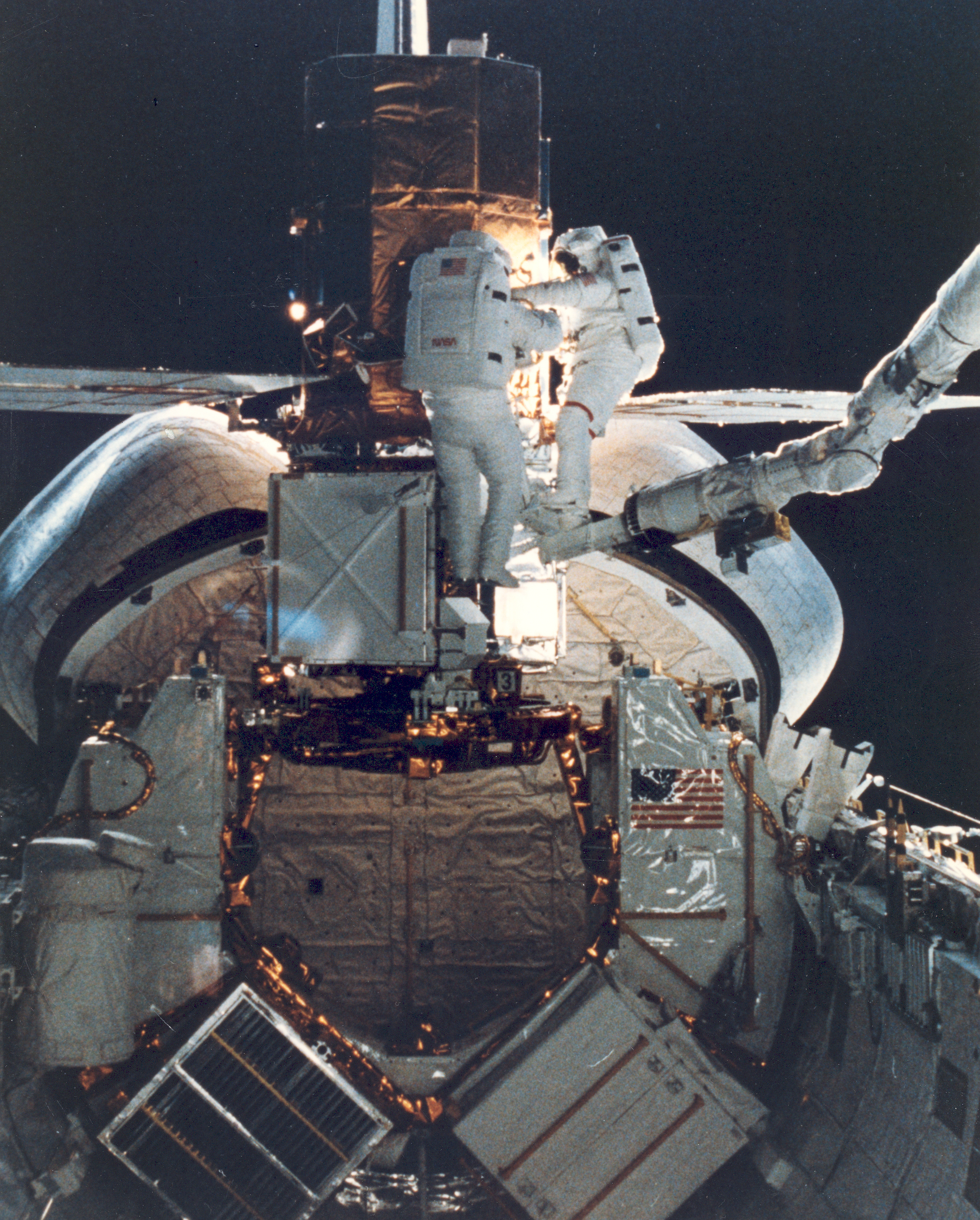 STS-41C astronauts George D. Nelson, right, and James D. van Hoften share a repair task at the captured Solar Maximum Mission Satellite (SMMS) in the aft end of the Challenger's cargo bay. The two mission specialist use the mobile foot restraint and the remote manipulator system (RMS) as a "cherry picker" device for moving about. Later, the RMS lifted the SMMS into space once more.